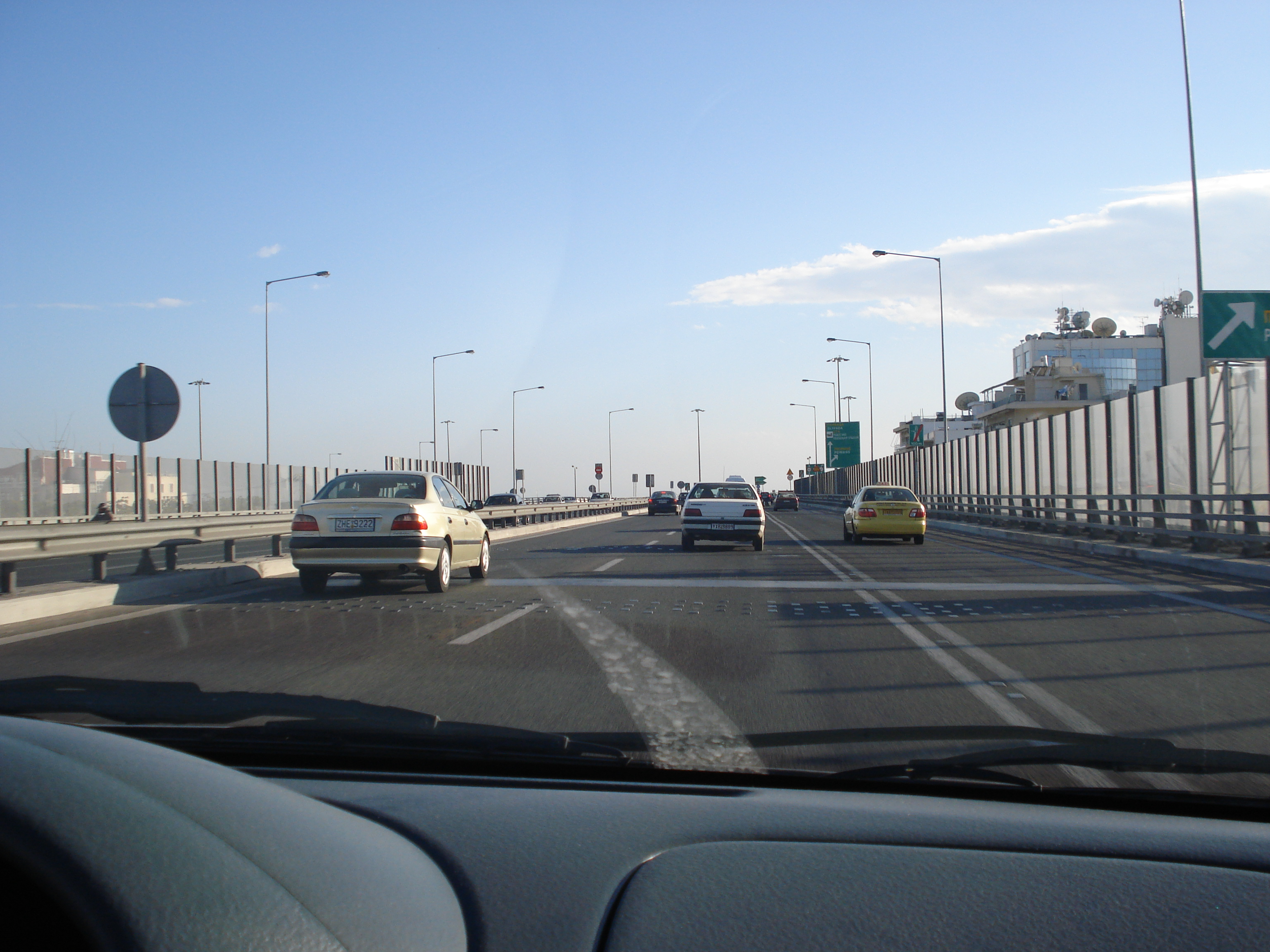 National road 1 and motorway 1 (ATHE, European Road 75) in Athens, direction to Faliro (Greece). End of motorway.